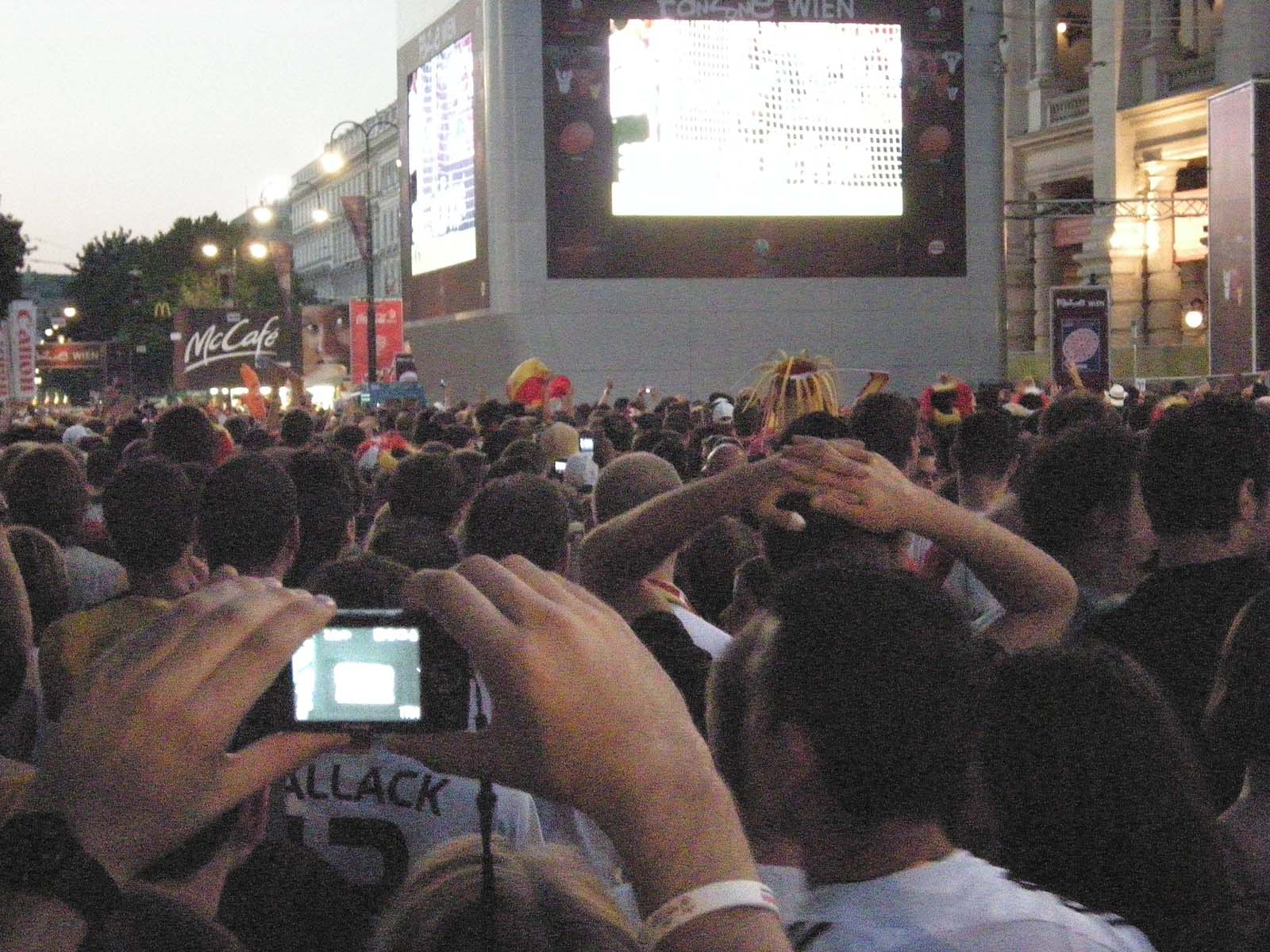 Austria, Vienna, Burgtheater